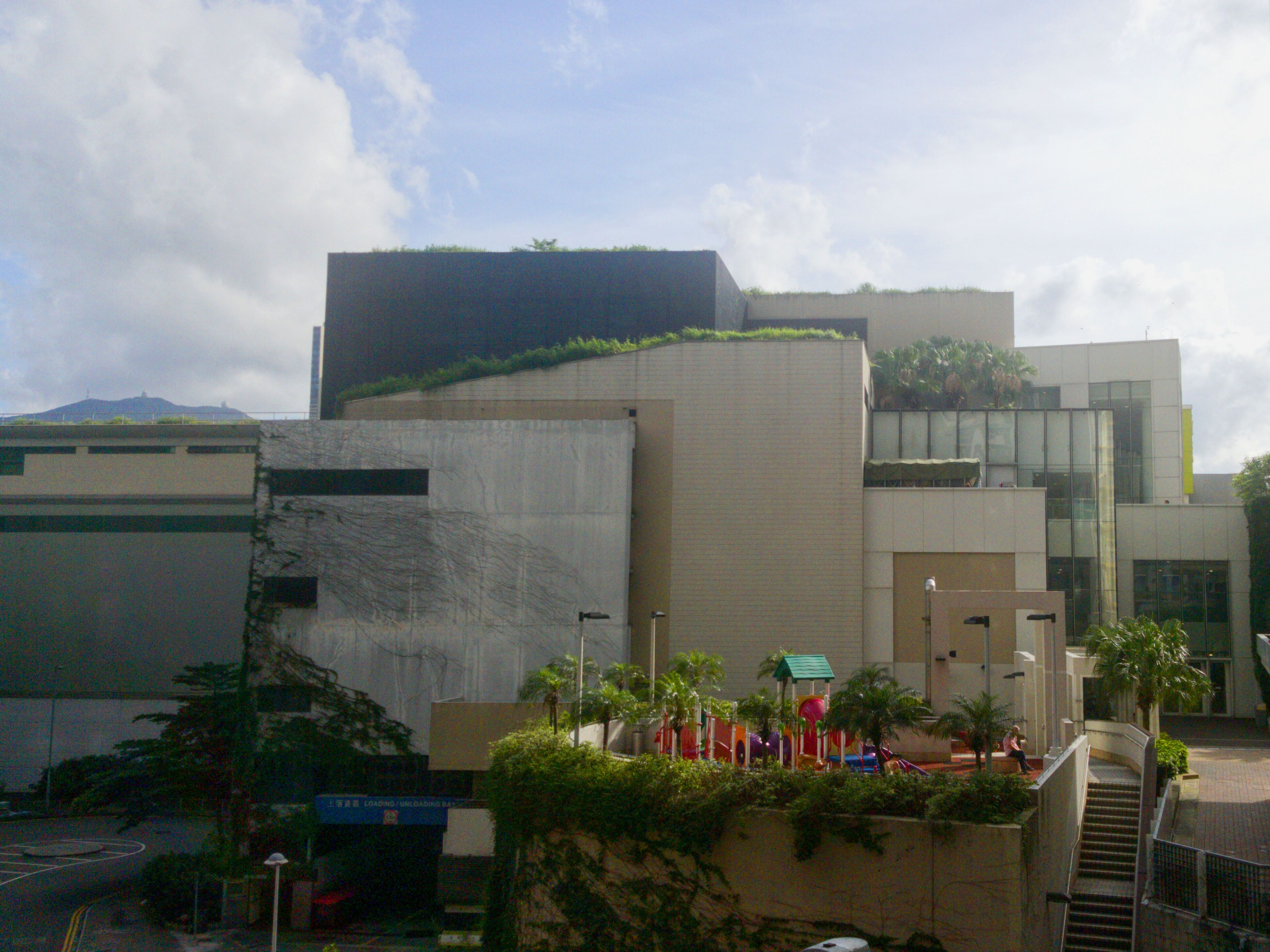 Exterior of Yau Lai Shopping Centre